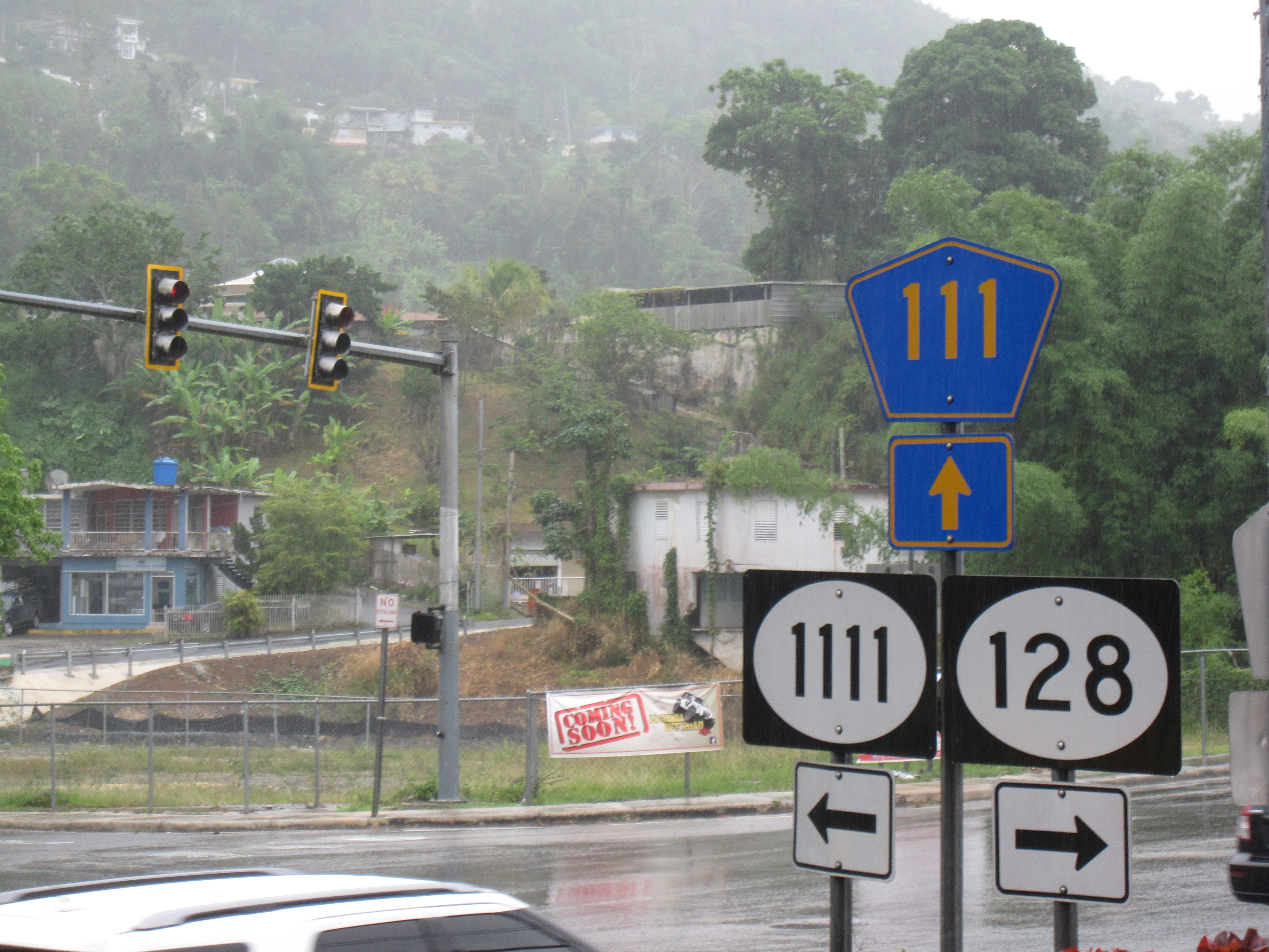 Puerto Rico Highways 1111, 128, 111 Intersection, Lares on a rainy day